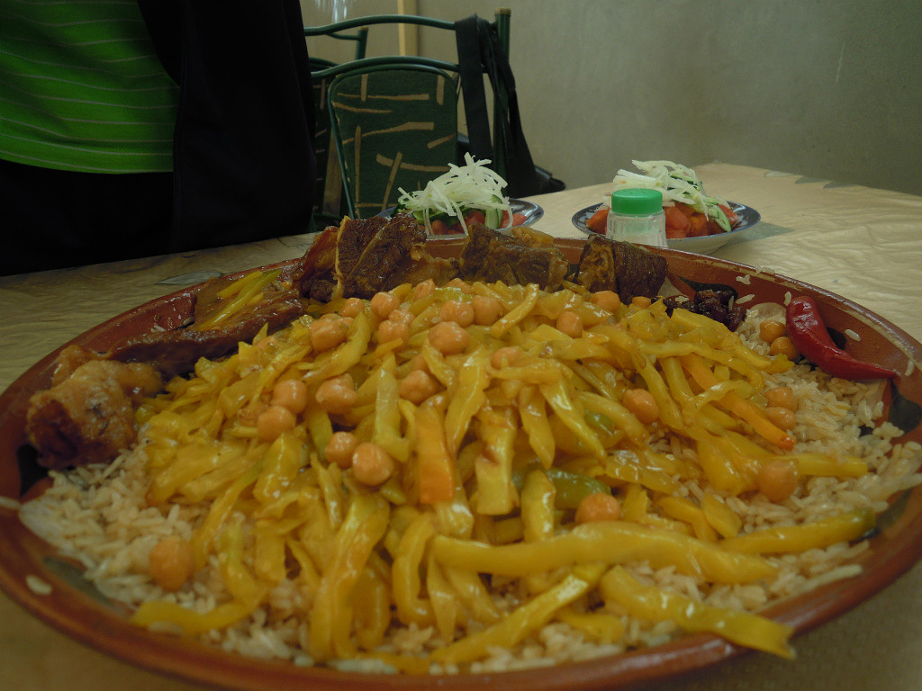 Samarkandian palov (pilaf)